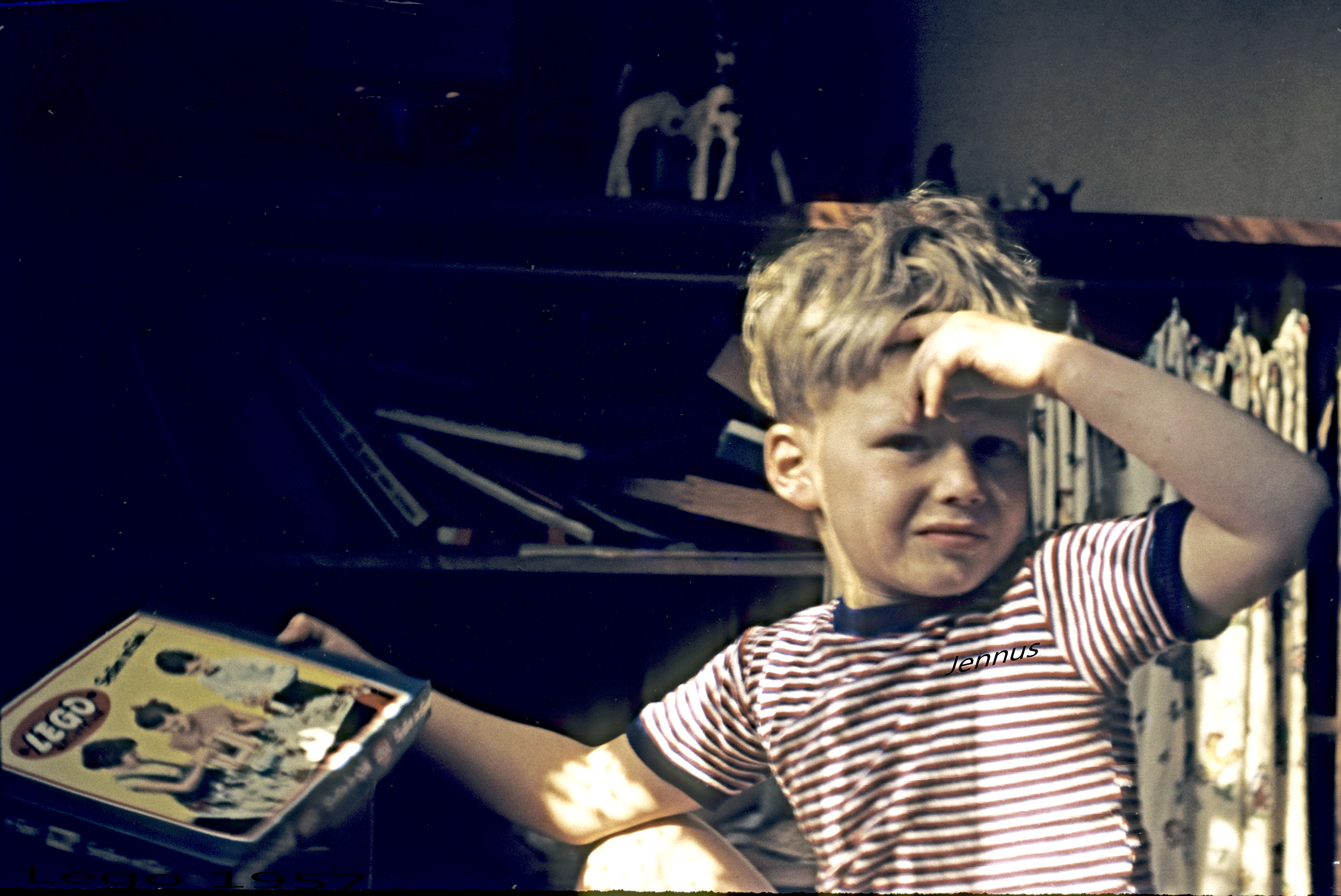 Child with Lego in the GDR in 1957